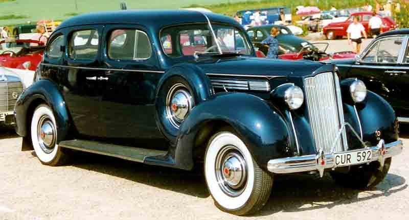 Packard Sixteenth Series Eight 1601 1172 De Luxe Touring Sedan 1938